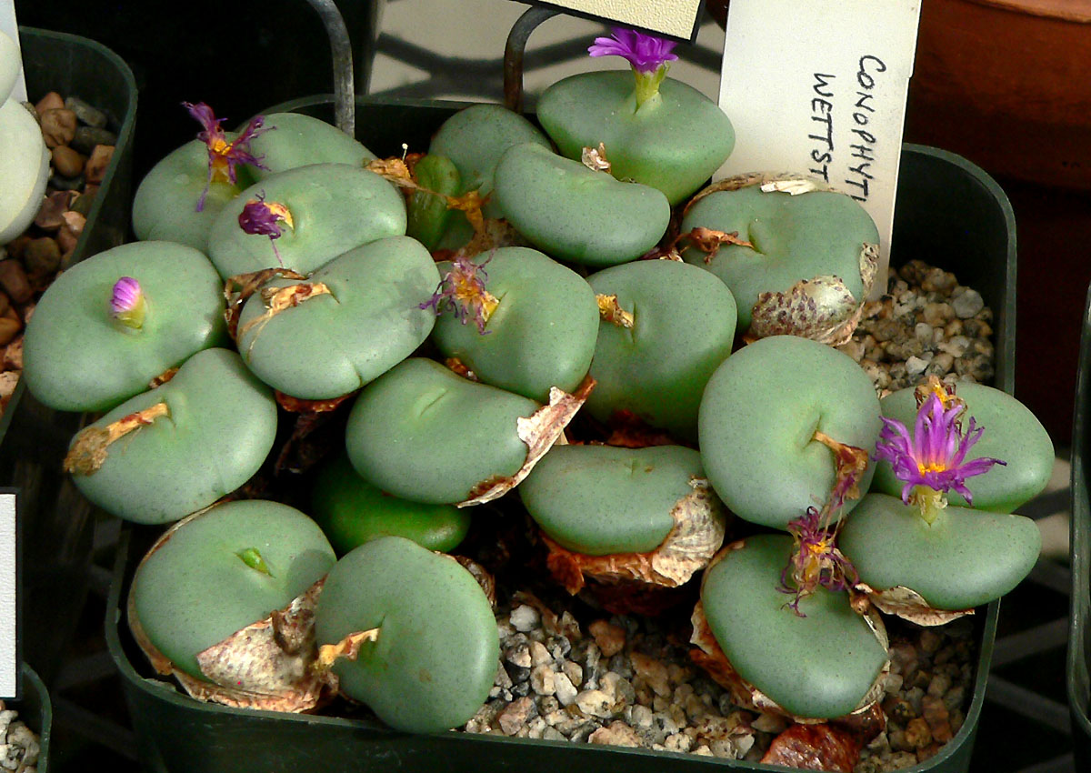 Conophytum wettsteinii at the University of California Botanical Garden, Berkeley, California